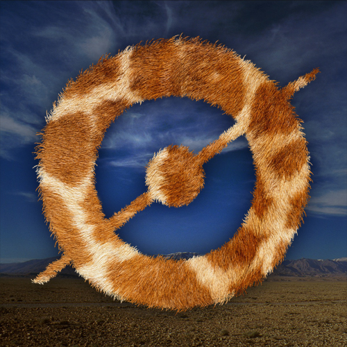 Official Zooniverse avatar for Snapshot Serengeti